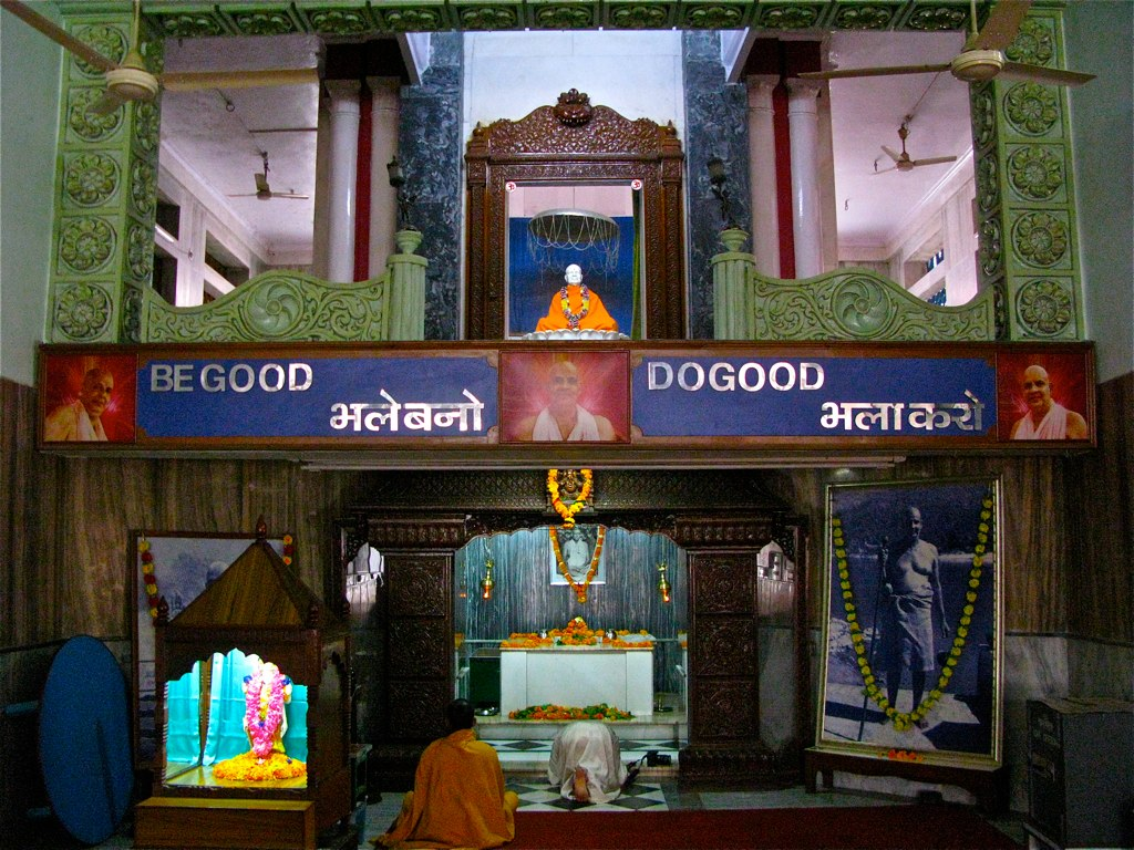 Interiors of the Sivananda Temple, Divine Life Society, Muni Ki Reti, Rishikesh